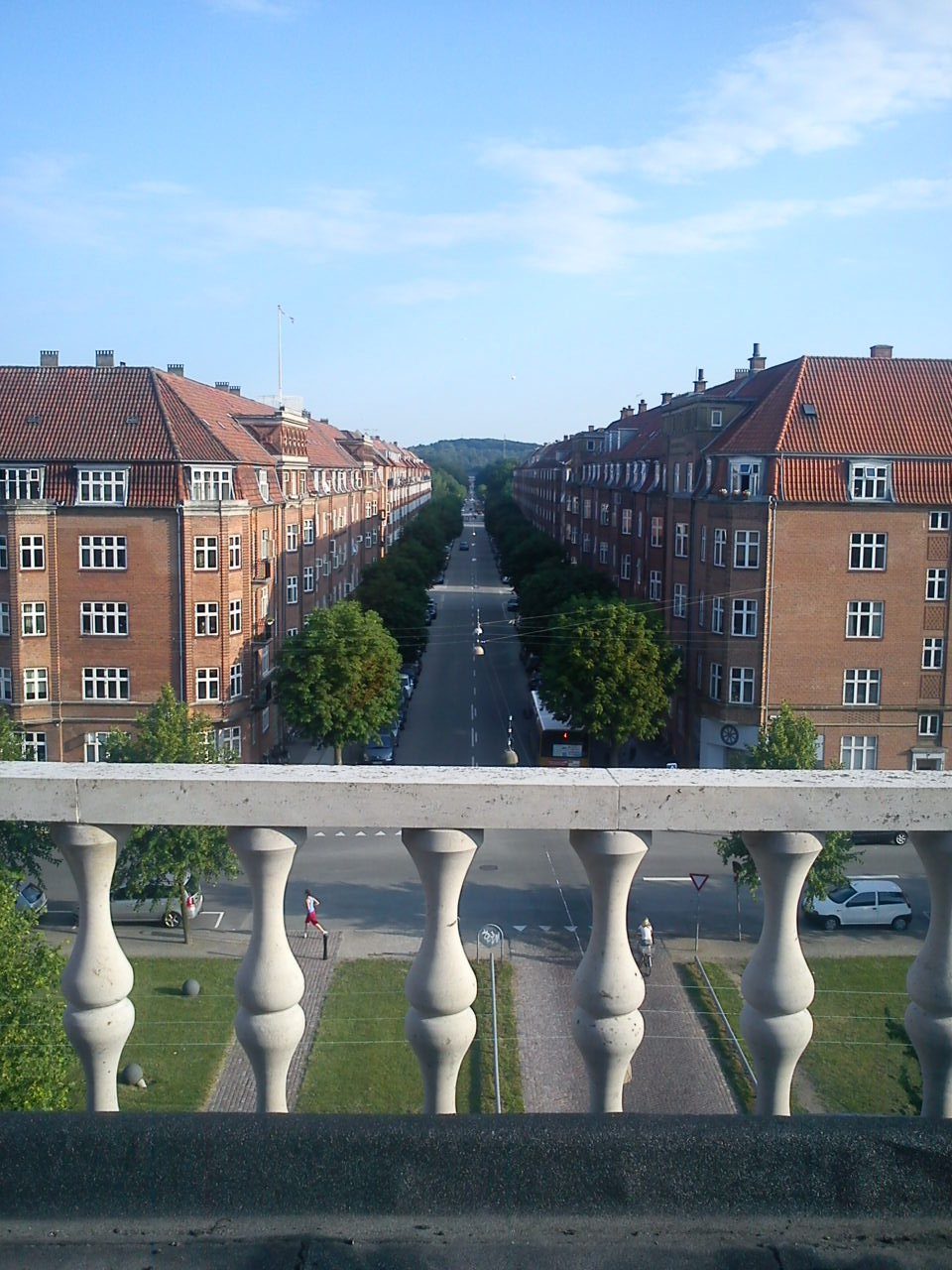 The long avenue of Stadion Allé in Aarhus (c. 1.5 km). Seen from the roof of Sct. Lukas Church at Ingerslevs Boulevard.